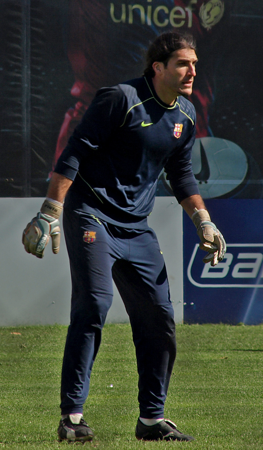 José Manuel Pinto, more commonly known as Pinto (born 8 November 1975 in Cadiz) is a Spanish football (soccer) goalkeeper who plays for FC Barcelona.